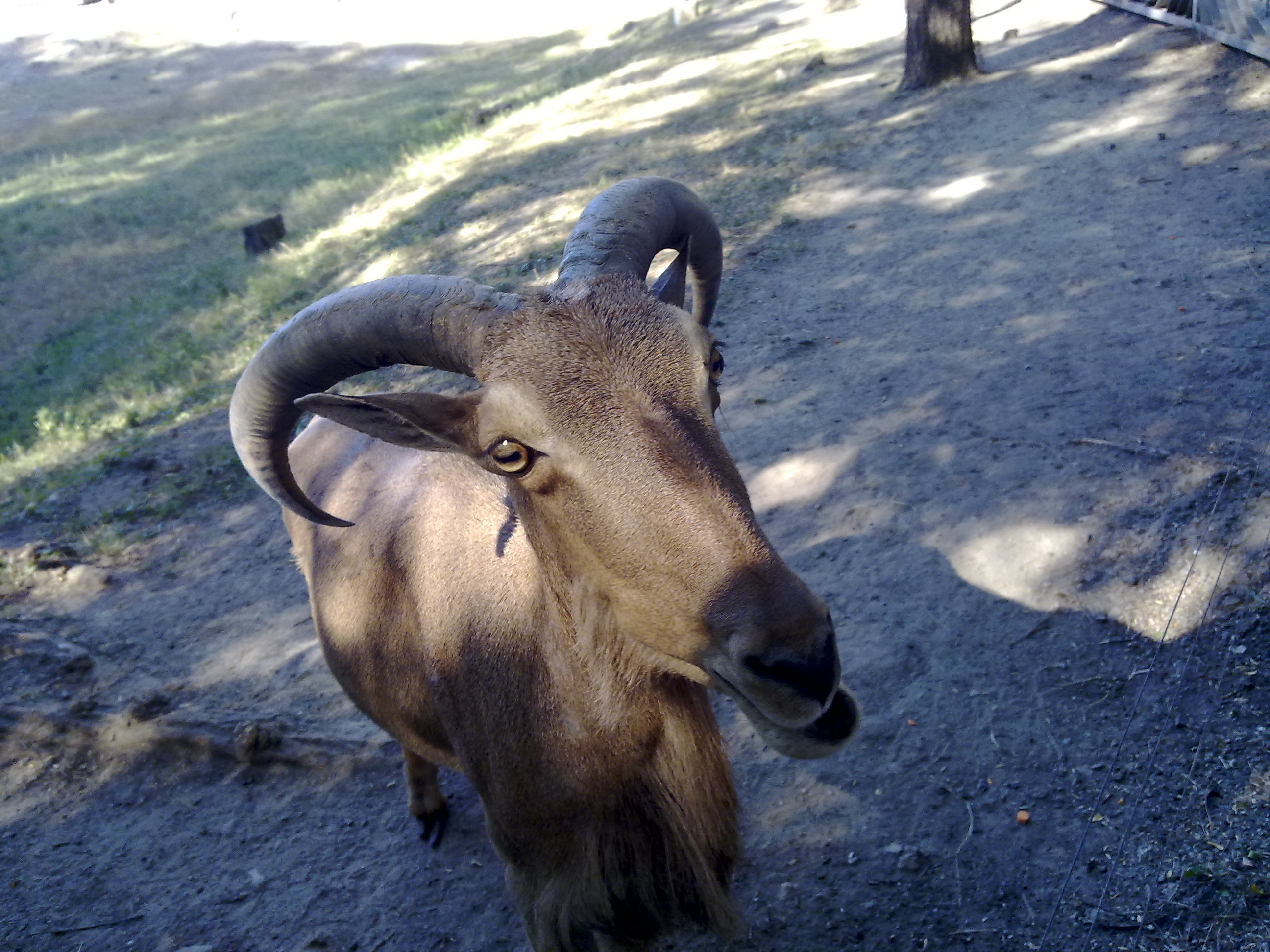 Ammotragus lervia in Rostov zoo.